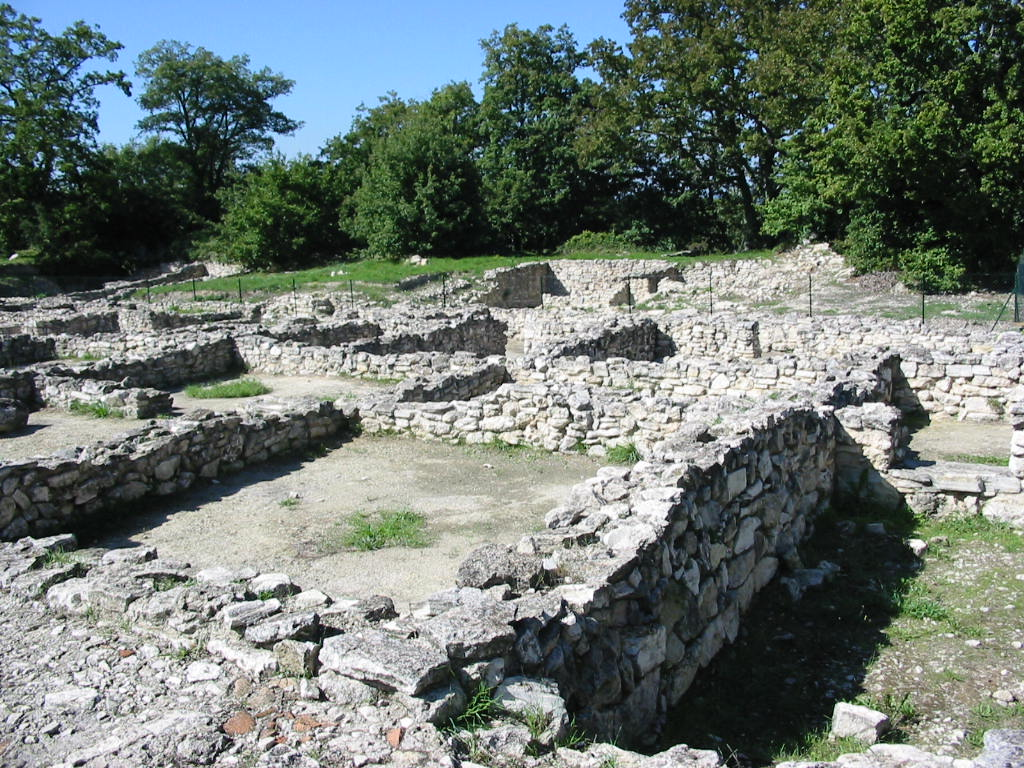 General view of the Oppidum of Entremont, at the north of Aix-en-Provence, France.